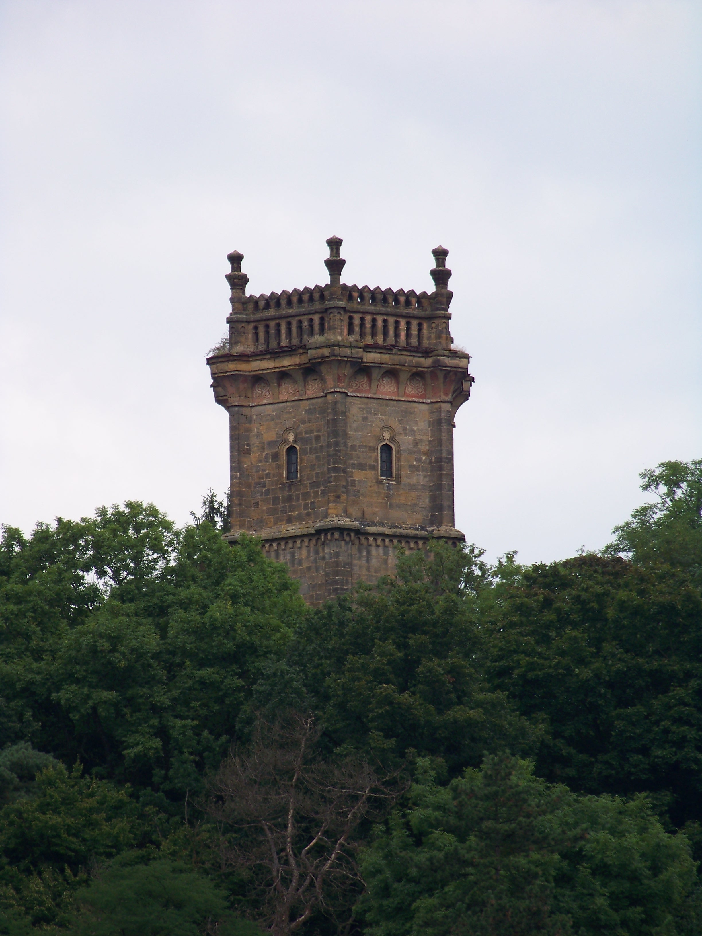 Tupadly, Mělník District, Central Bohemian Region, the Czech Republic. Slavín Castle.